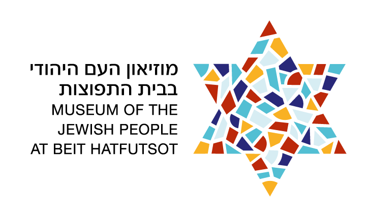 Beit Hatfutsot